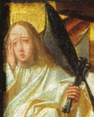 Man of Sorrows